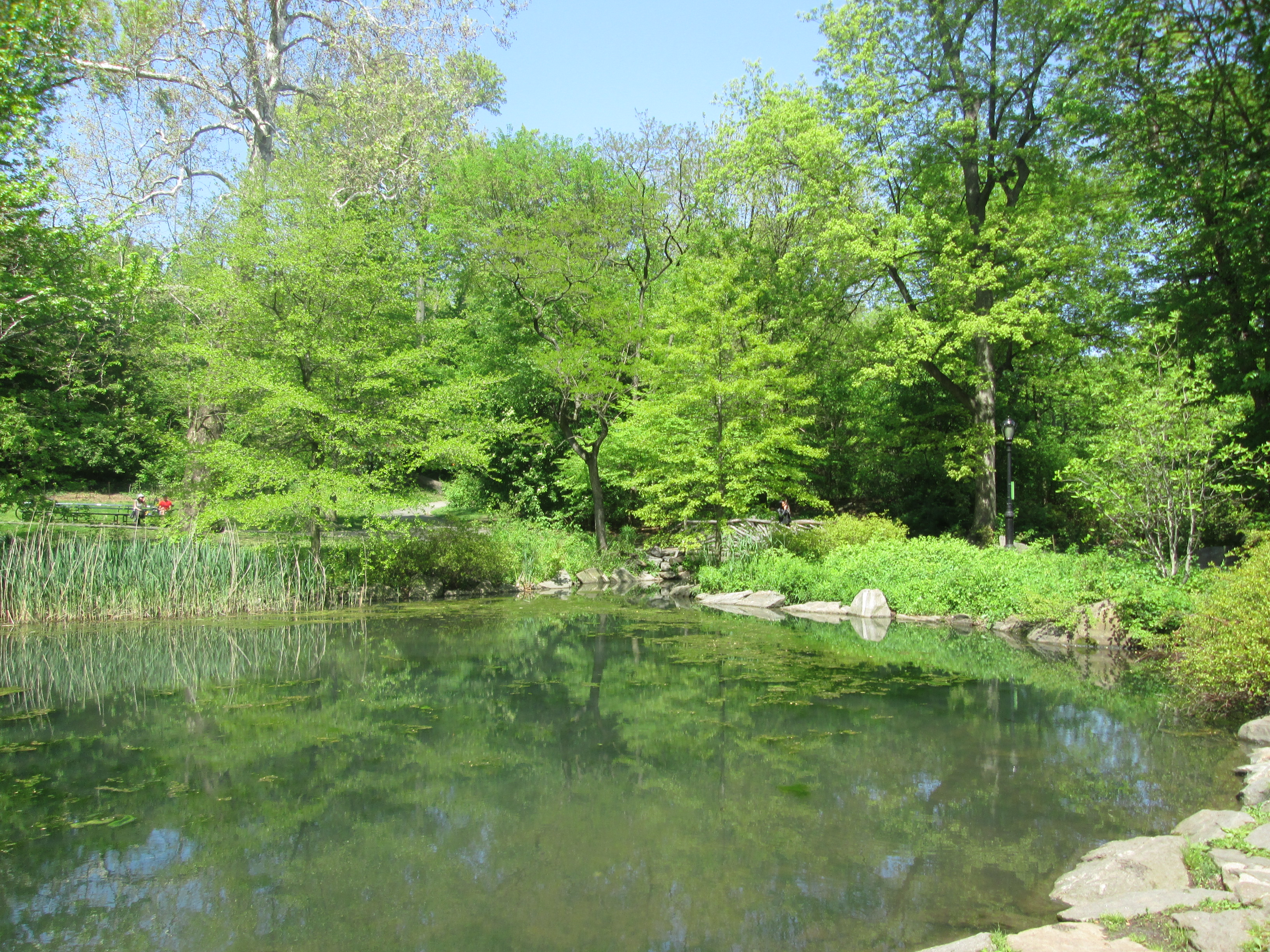 Central Park in Manhattan, New York; vicinity of the Pool and the Loch in the northern section of the park, looking at the Pool